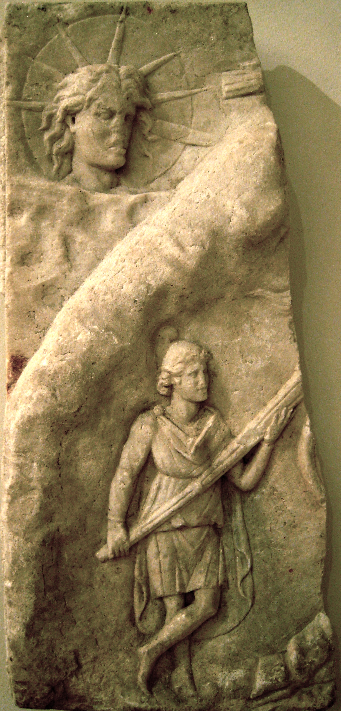 Cautes with a torch. Fragment of a relief, marble. Rome, c. 100-150.